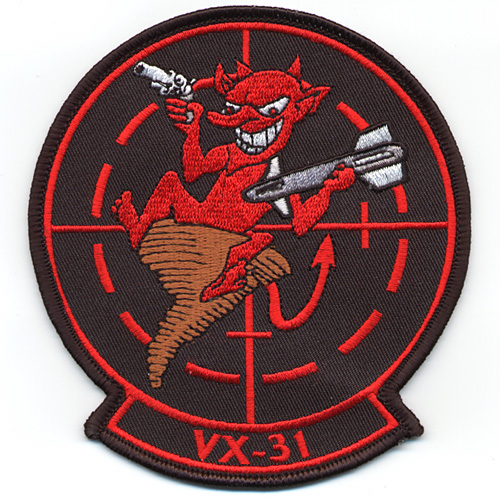 Patch of Air Test and Evaluation Squadron 31 (United States Navy).